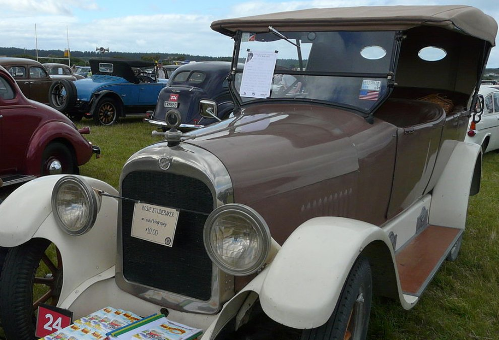 1918 Studebaker Special Six